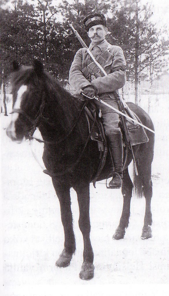 Finnish civil war leader Efraim Kronqvist